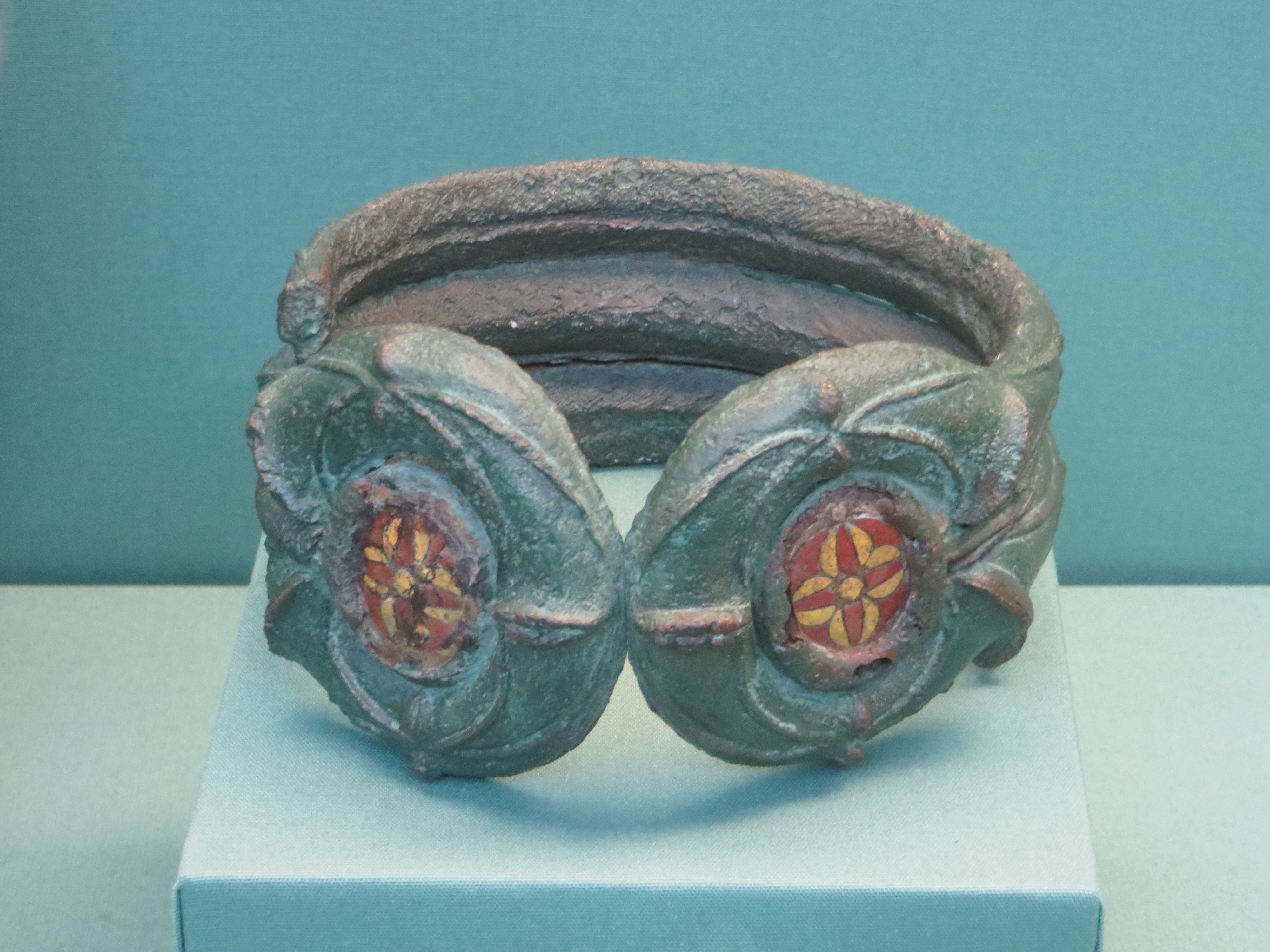 Bronze Armlet from Scotland in the British Museum. One of a pair.